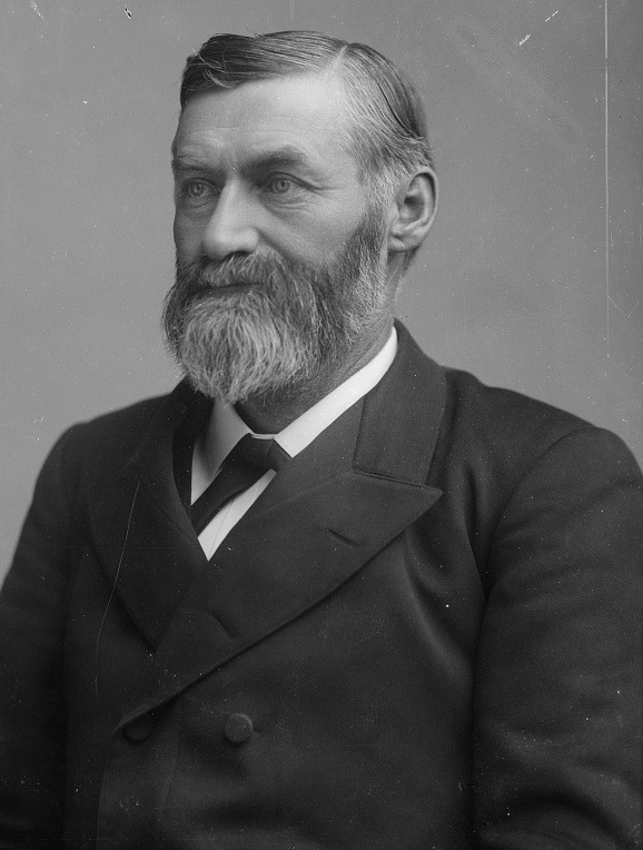 John S. Pindar (New York Congressman)